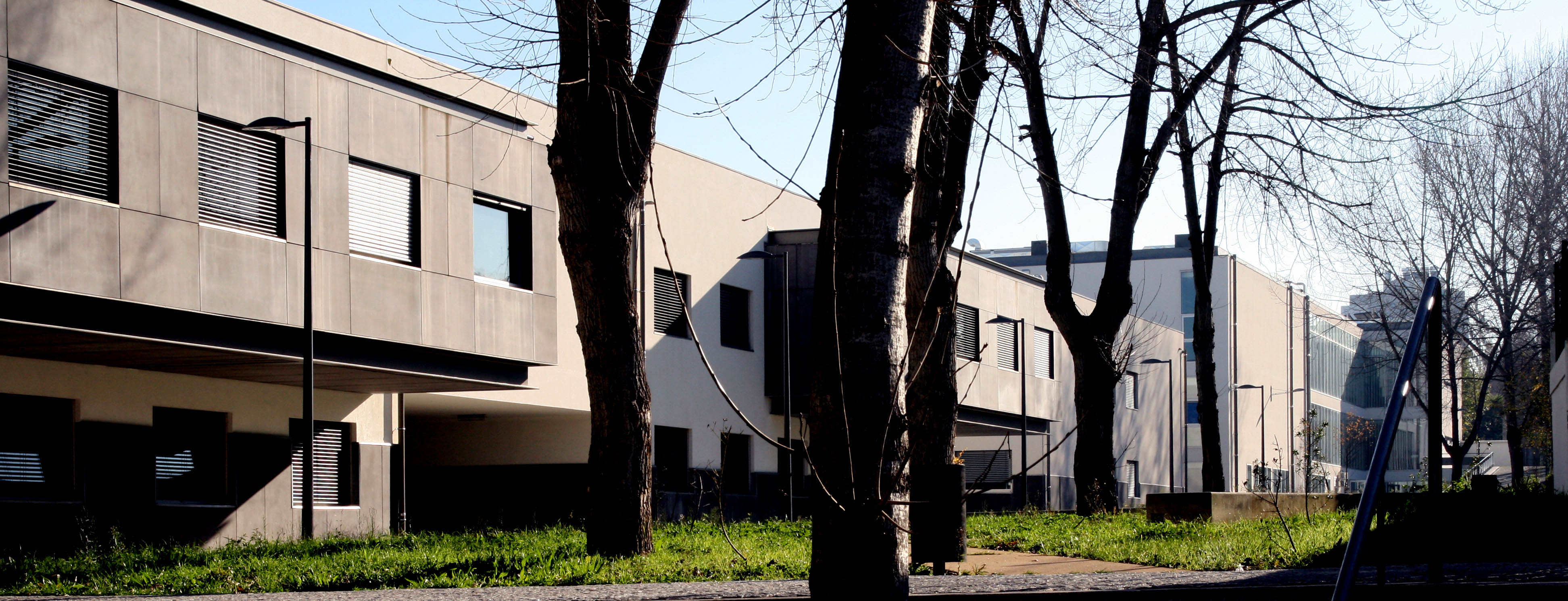 Secondary School of Rio Tinto - Portugal